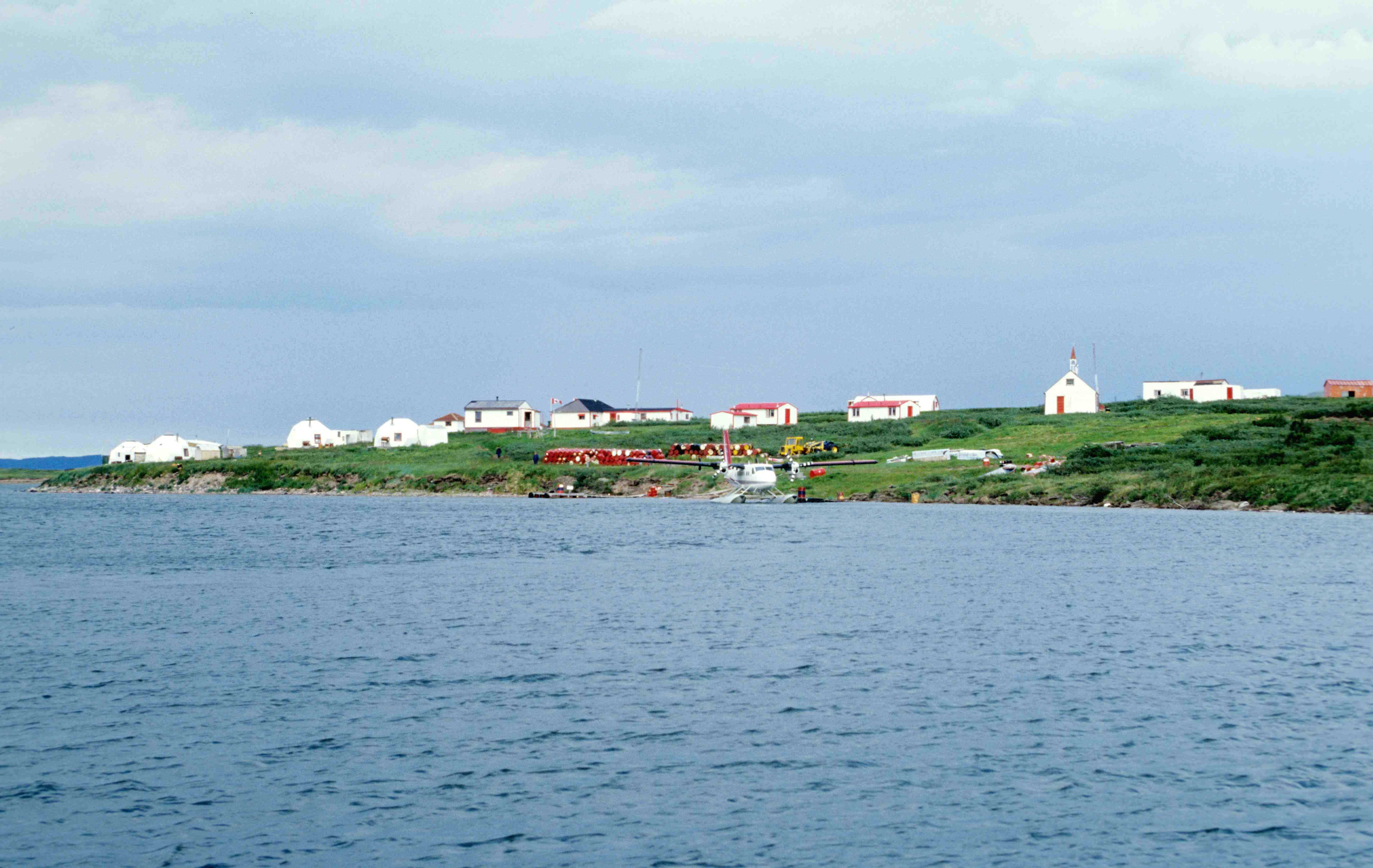 Bathurst Inlet: Inuit Settlement and Naturalists’ Lodge